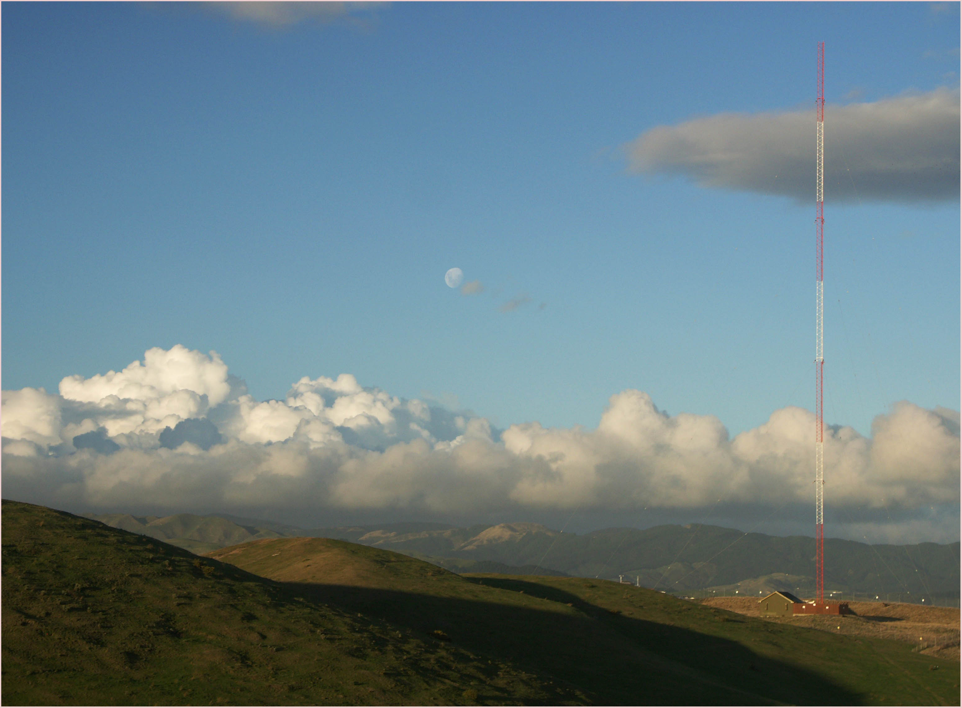 Smaller Mast next to the old 2YA / National Programme Transmitting Antenna -- photo taken and uploaded by Paul Moss, Photographer, Artist, Paul Moss Photographer Artist NZ